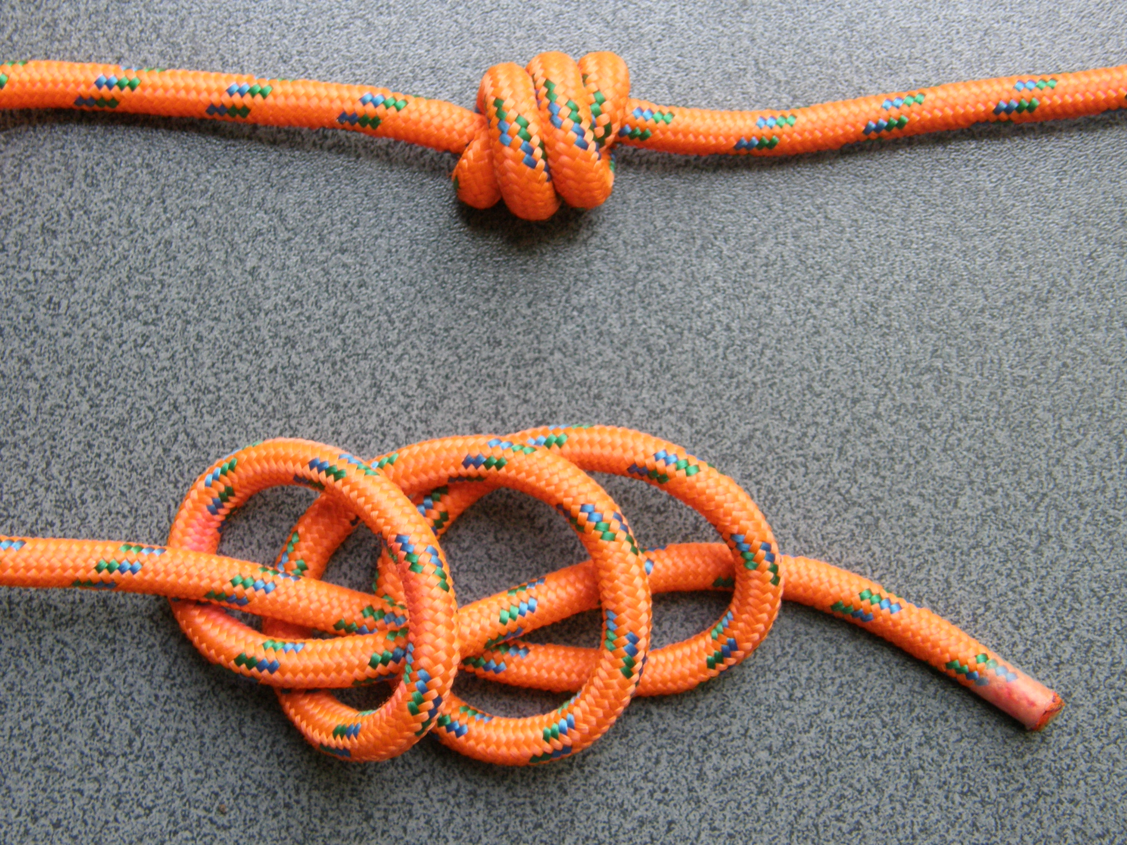 Overhandknot like Franciscan.